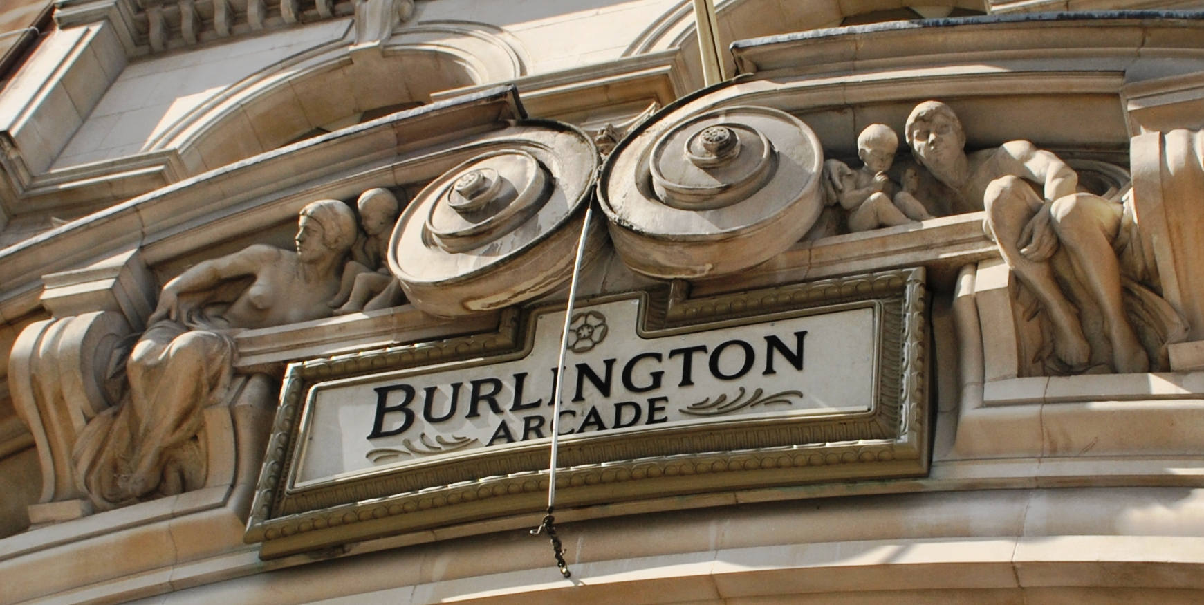 Image originally published in Queer Places: Retracing the Steps of LGBTQ people around the World Authored by Elisa Rolle